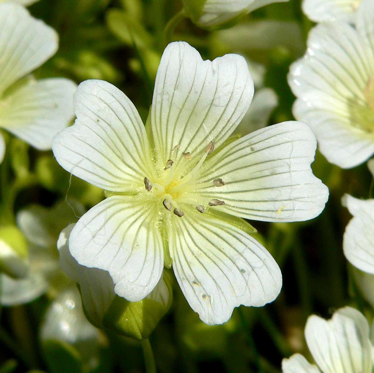 Limnanthes vinculans at the University of California Botanical Garden, Berkeley, California